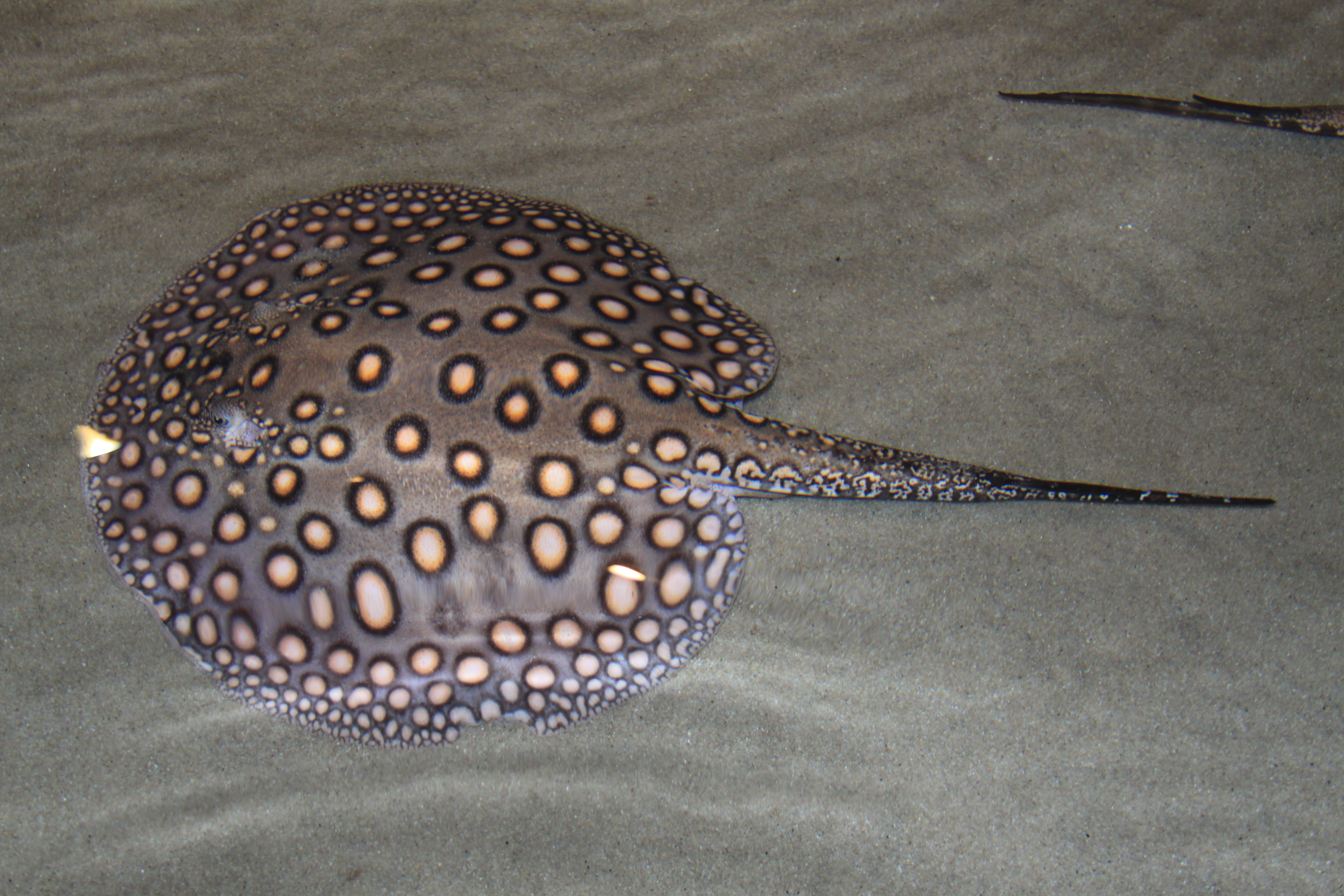 Ocellate river stingray (Potamotrygon motoro) at the Adventure Aquarium, Camden, NJ